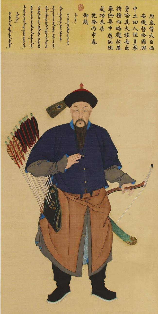 Ha Guoxing (哈国兴 ha guo xing), an officer of the Qing Army during Qianlong's era.